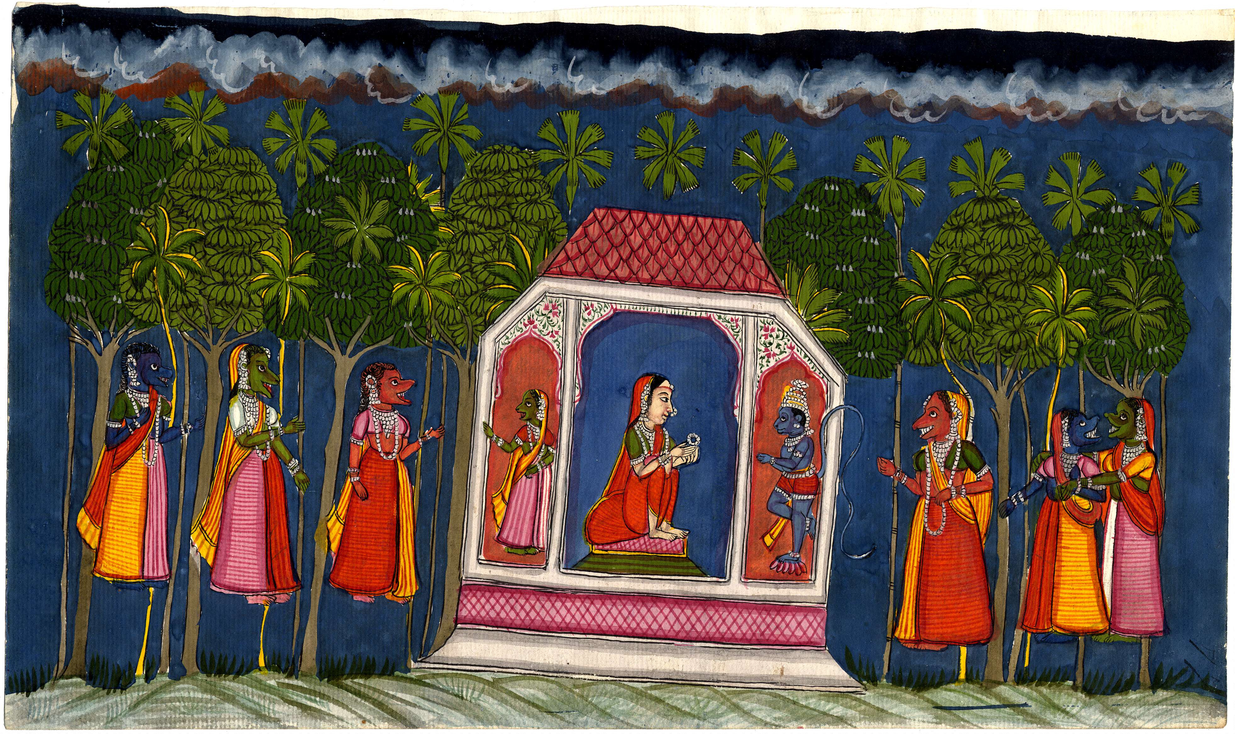 An illustration from the Ramayana. Sīta accepting a jewel from Hanumana sent by Rāma.